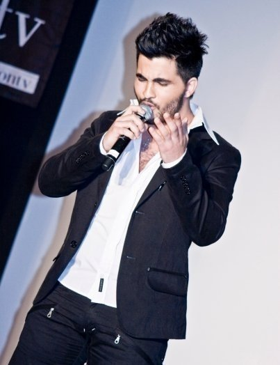 Marios Tofi on Sunrise in Baku Fashion Project by KPK Entertainment